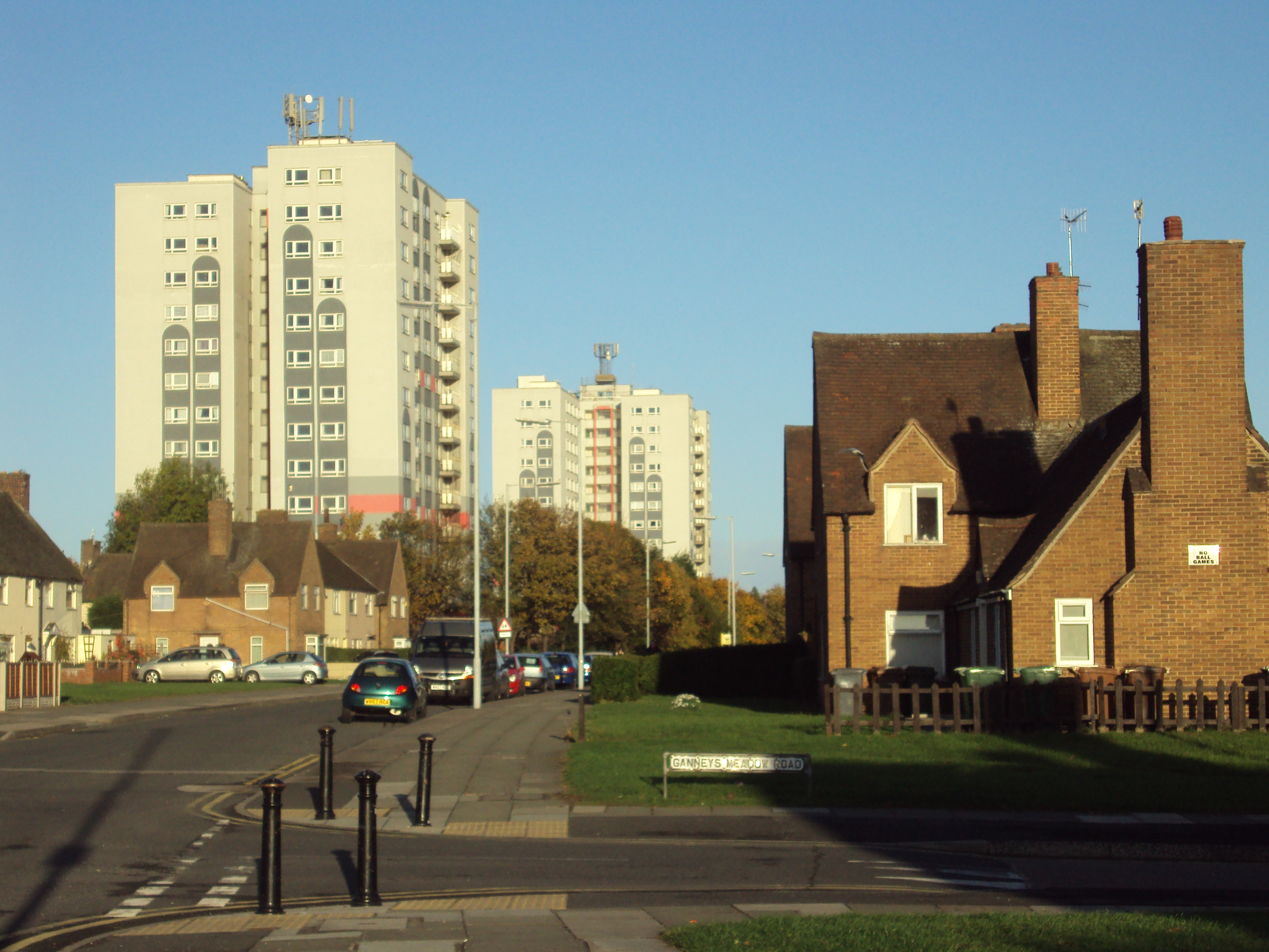 New Hey Road, Woodchurch, Birkenhead, Wirral, Merseyside, England. Brackendale residential tower block is on the left. Flambards tower block in the centre.